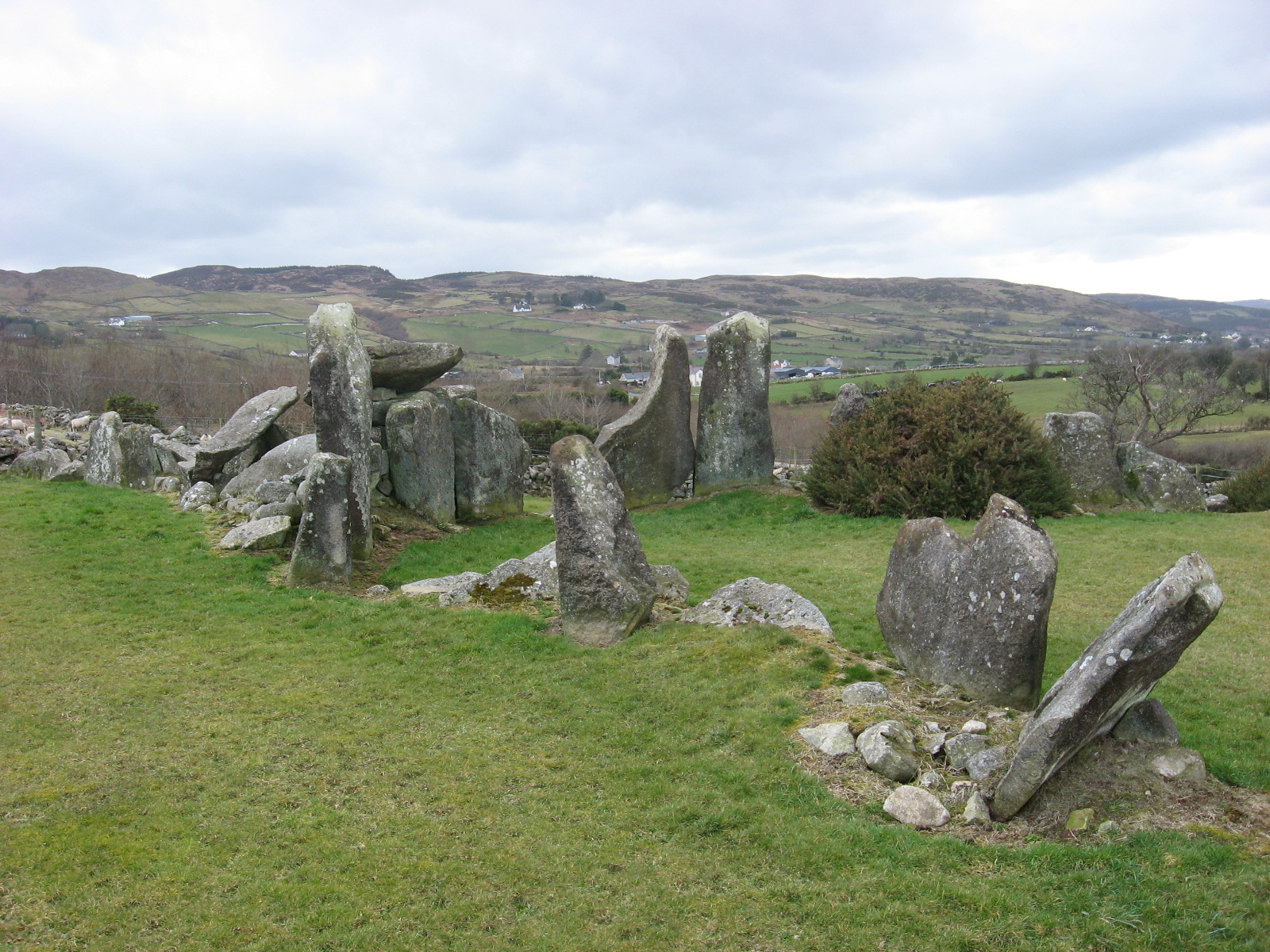 Megalithic tomb at Clontygora, Co. Armagh